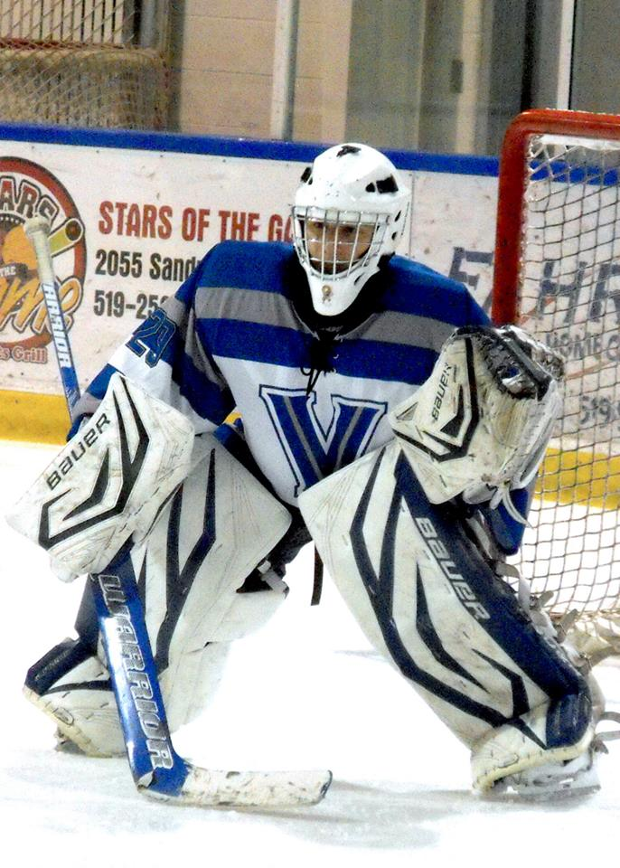 This photo was taken by Devan Mighton during the 2014-15 WECSSAA season.